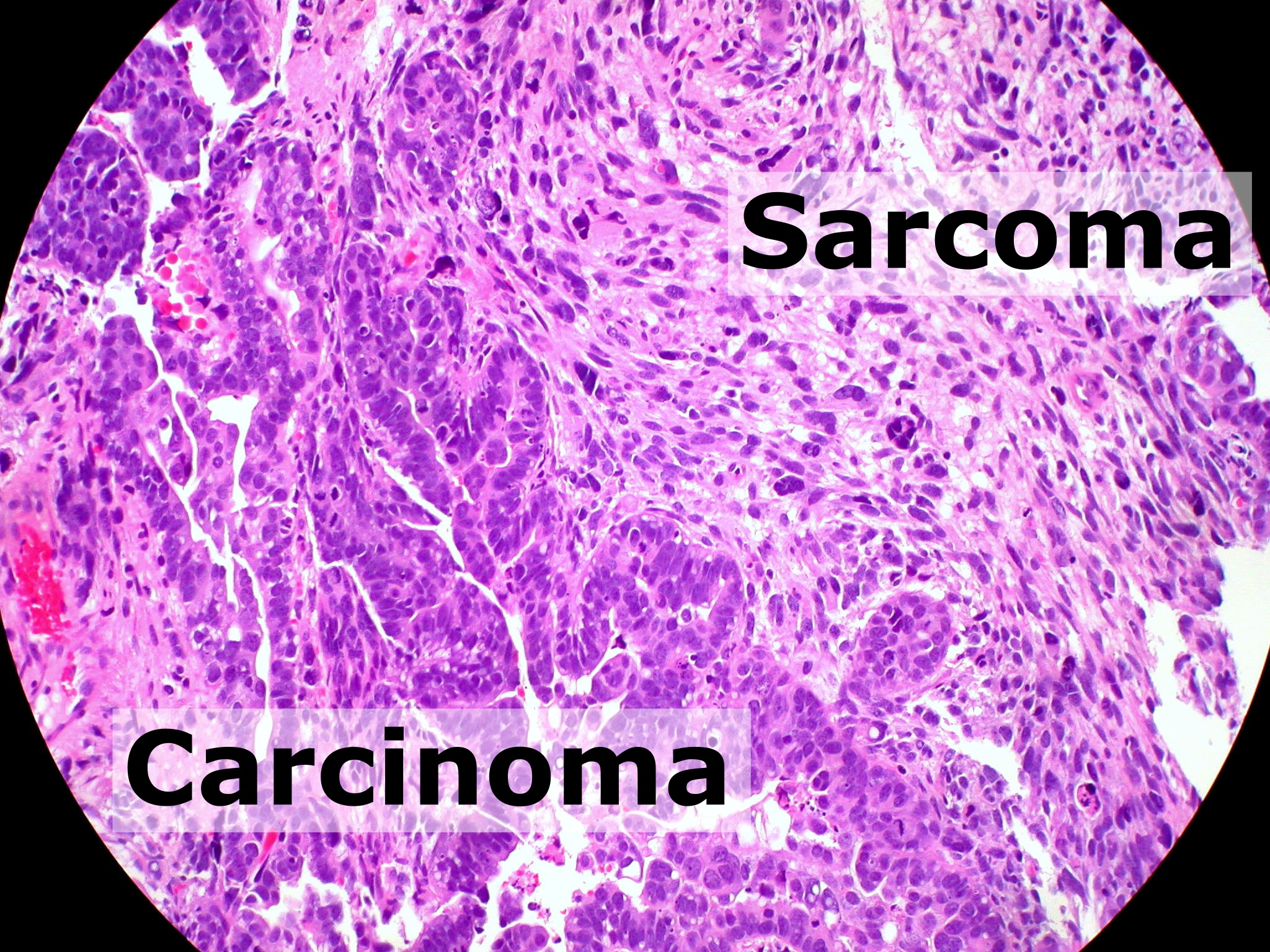 Carcinosarcoma of the endometrium